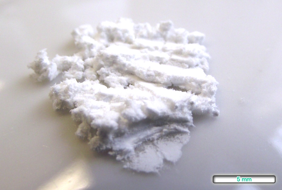 Photo of Allopurinol, pure